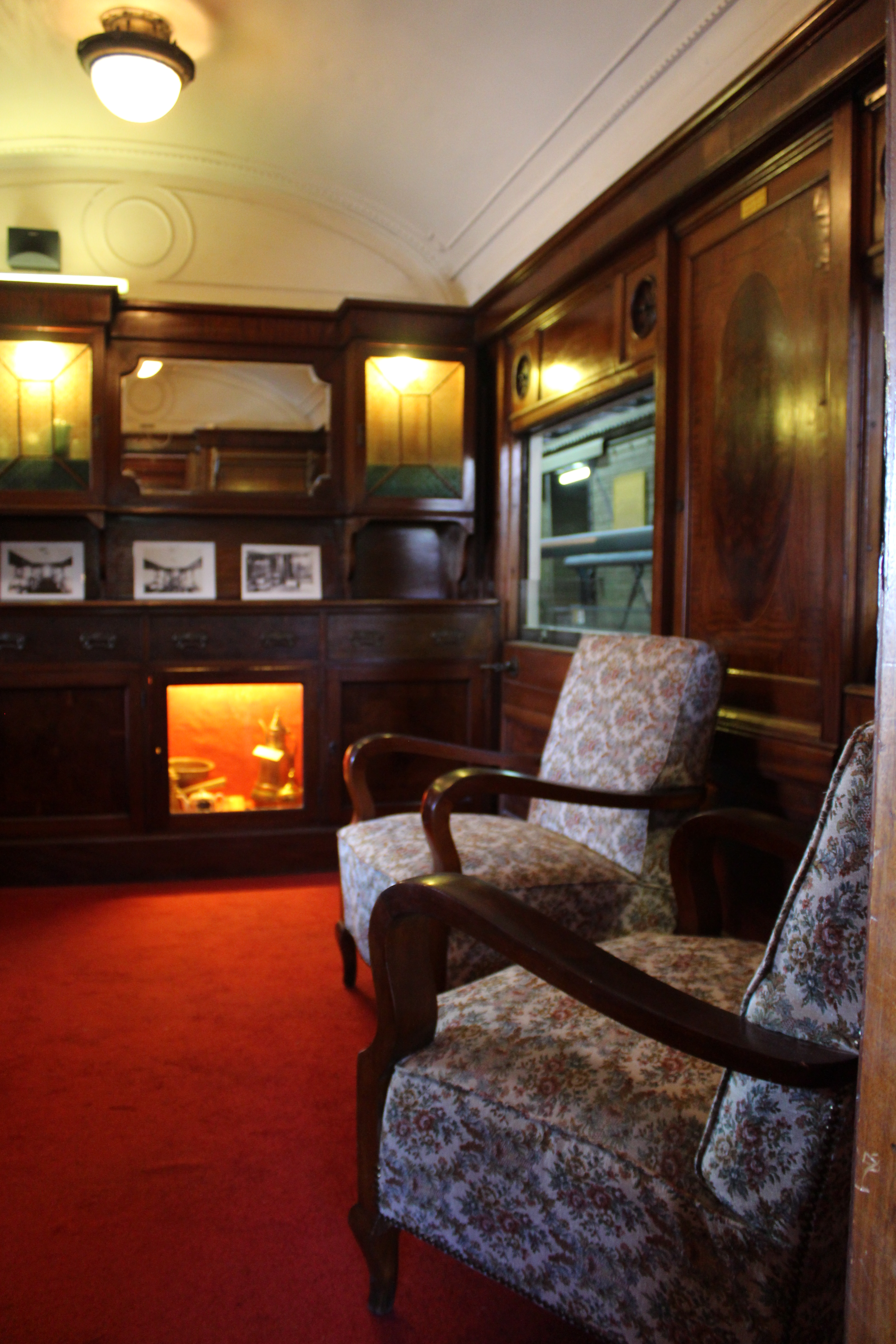 Israel Railway Museum, Haifa